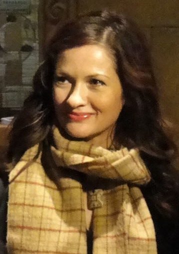 Clone Wars screening - Nika Futterman (Asajj Ventress), James Arnold Taylor (Obi-Wan), Catherine Taber (Padme Amidala) chat outside the theater